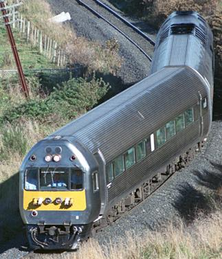 Silver Fern Railcar. Source